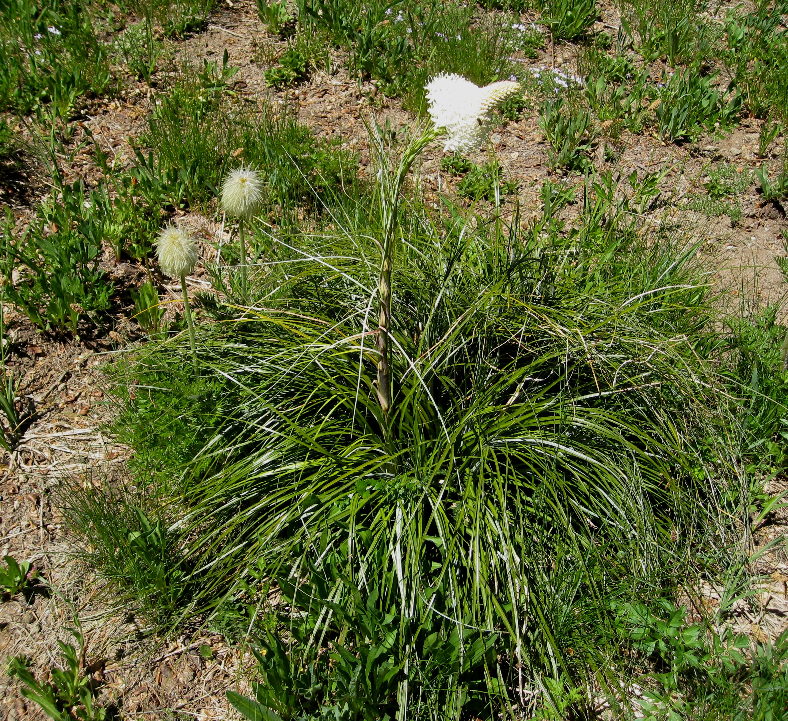 Xerophyllum tenax It was funny to encounter this just after seeing a bear. (But correlation doesn't imply causation) I am guessing most of the pollinators were hoverflies (not bees) Anemone occidentalis; Western Pasqueflower Pulsatilla occidentalis – white pasqueflower on PLANT profile Tow-headed baby, western pasqueflower anemos in Greek meant wind - hence also windflower... Grand Park, Mount Rainier National Park Pierce County, Washington, USA Elevation ~1800 m. ~6000 feet s100724 111